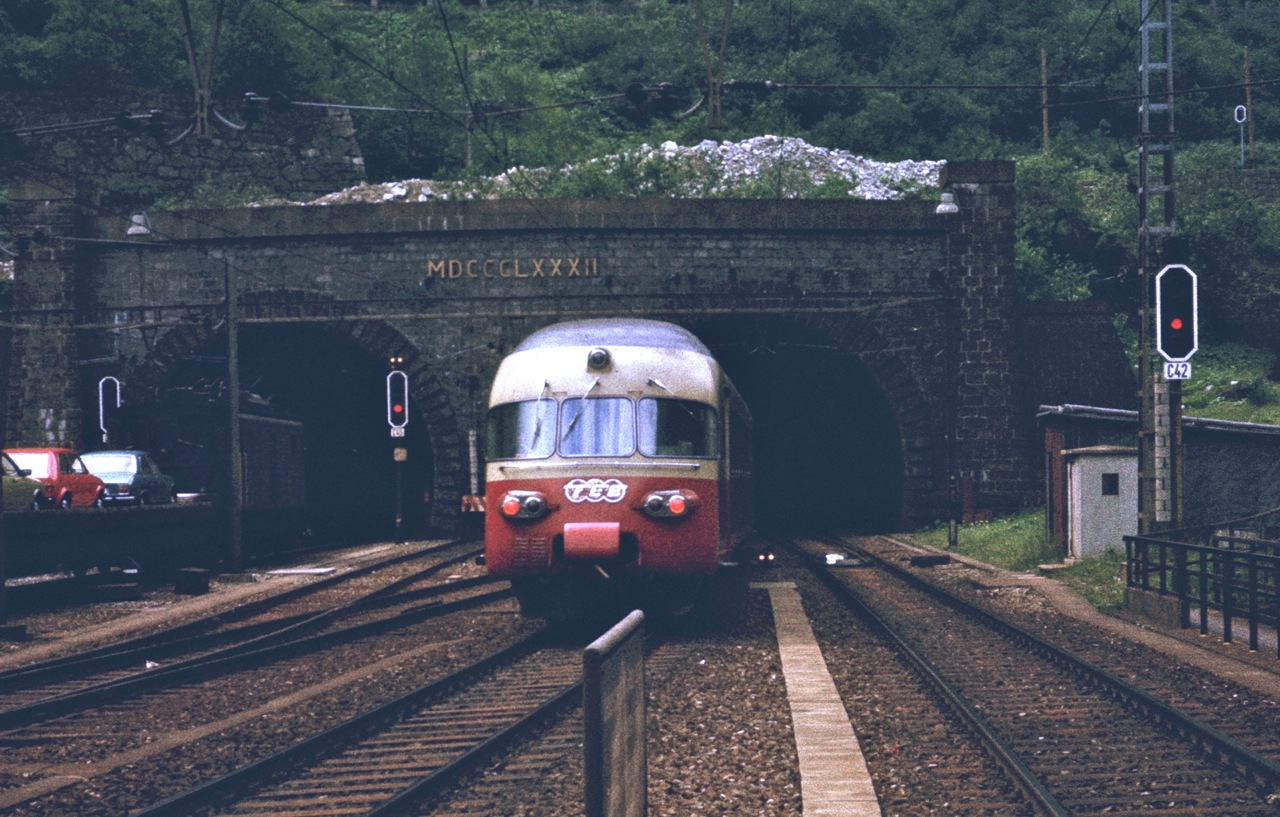 The TEE Gottardo entering the Gotthard Tunnel (north portal) at Göschenen, bound for Genova via Milano. Marked in Roman numerals above the portal is the year of the tunnel's opening to traffic, 1882.